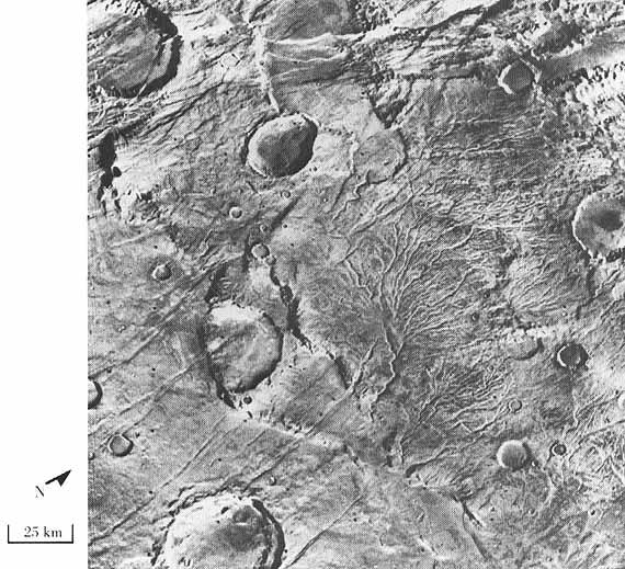 Branched channels, as seen by Viking. Location is 48 S and 98 W.